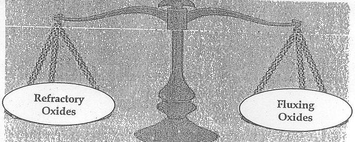 الخبث المتوازن